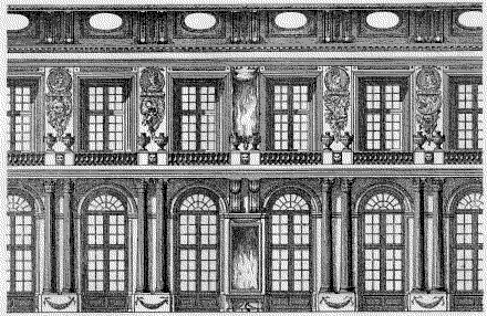 Section of the central hall of Christiansborg Palace, designed by Nicolas-Henri Jardin (1720-1799). Burned in 1794.